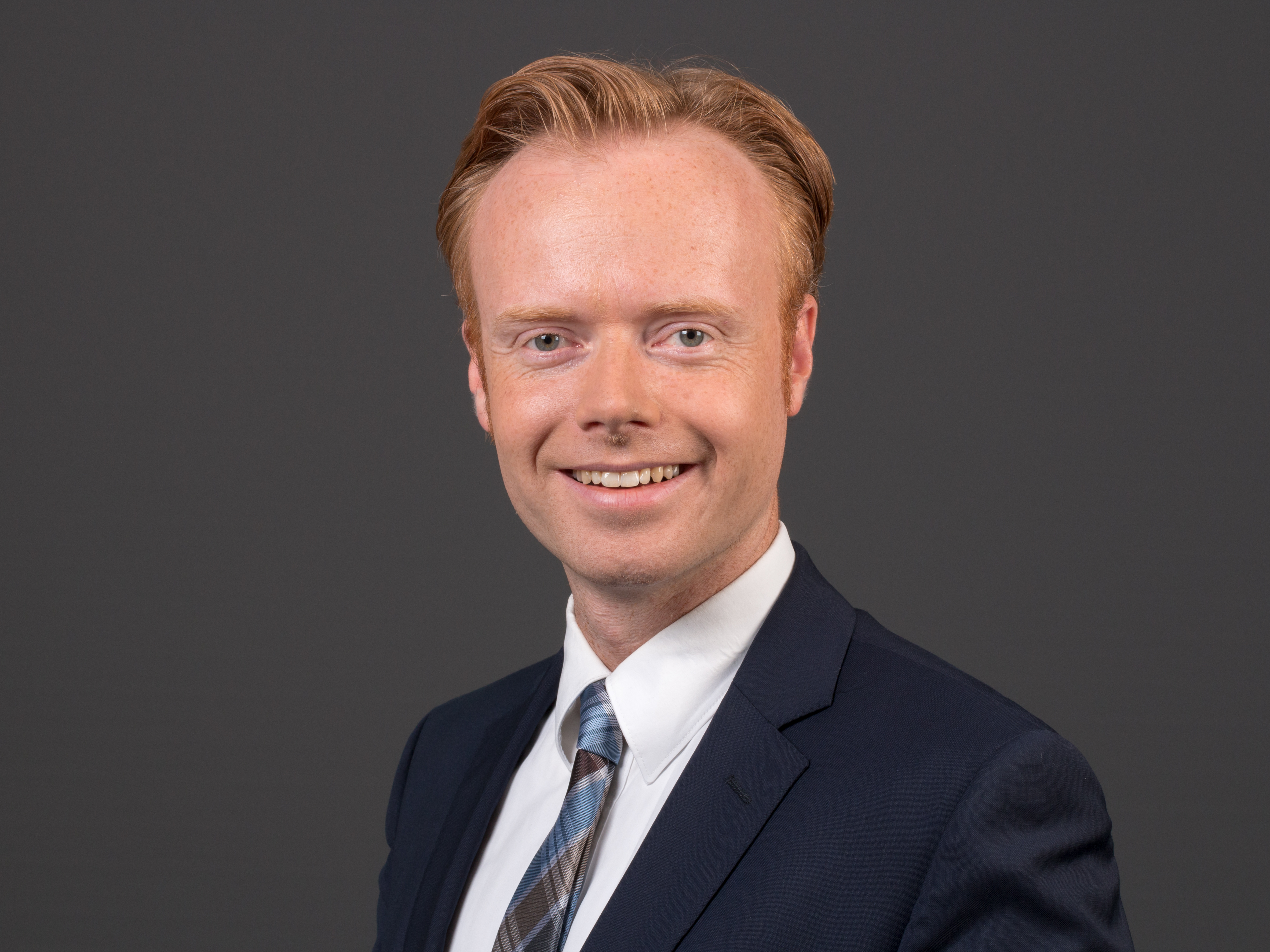 Jan Metzler, MdB, Christian Democratic Union